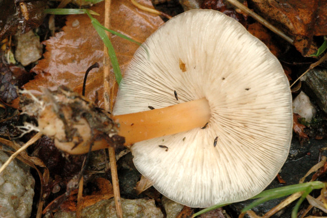 Gymnopus dryophilus s. l. from Commanster, Belgium. The determination of the species shown in this picture has been verified.